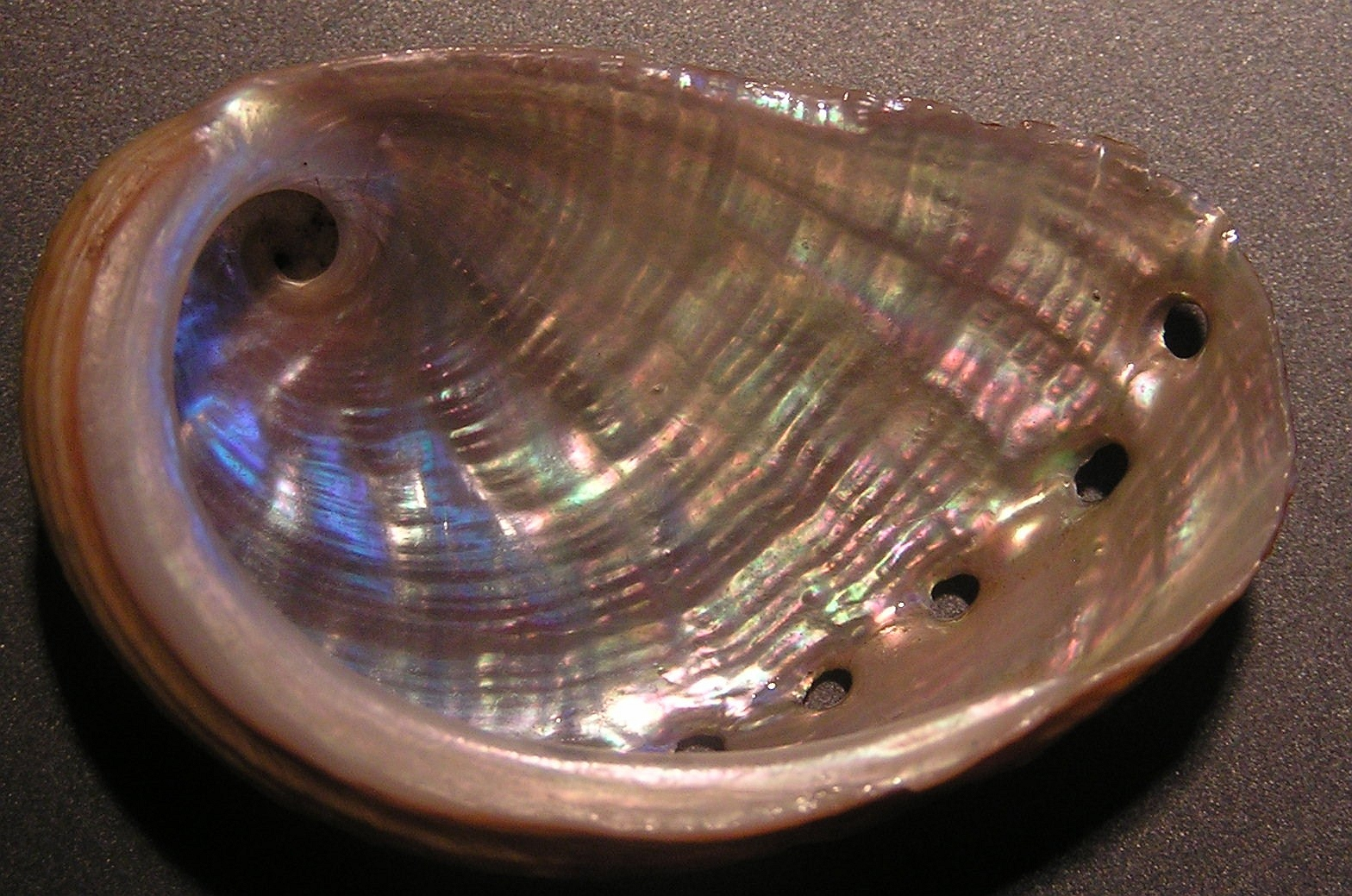 Haliotis stomatiaeformis L. A. Reeve, 1846, an abalone from the family Haliotidae